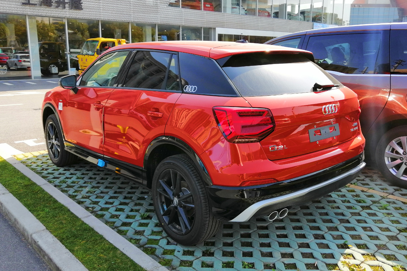 Audi Q2L photographed in Shanghai, China.